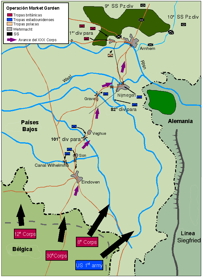 Image modified from Image:Marketgarden.png, translated into Spanish and corrected (the French one has errors, mistaking the 101 for the 82nd Division of paratroopers). Author of this image: Sergio Perez. July 2006.